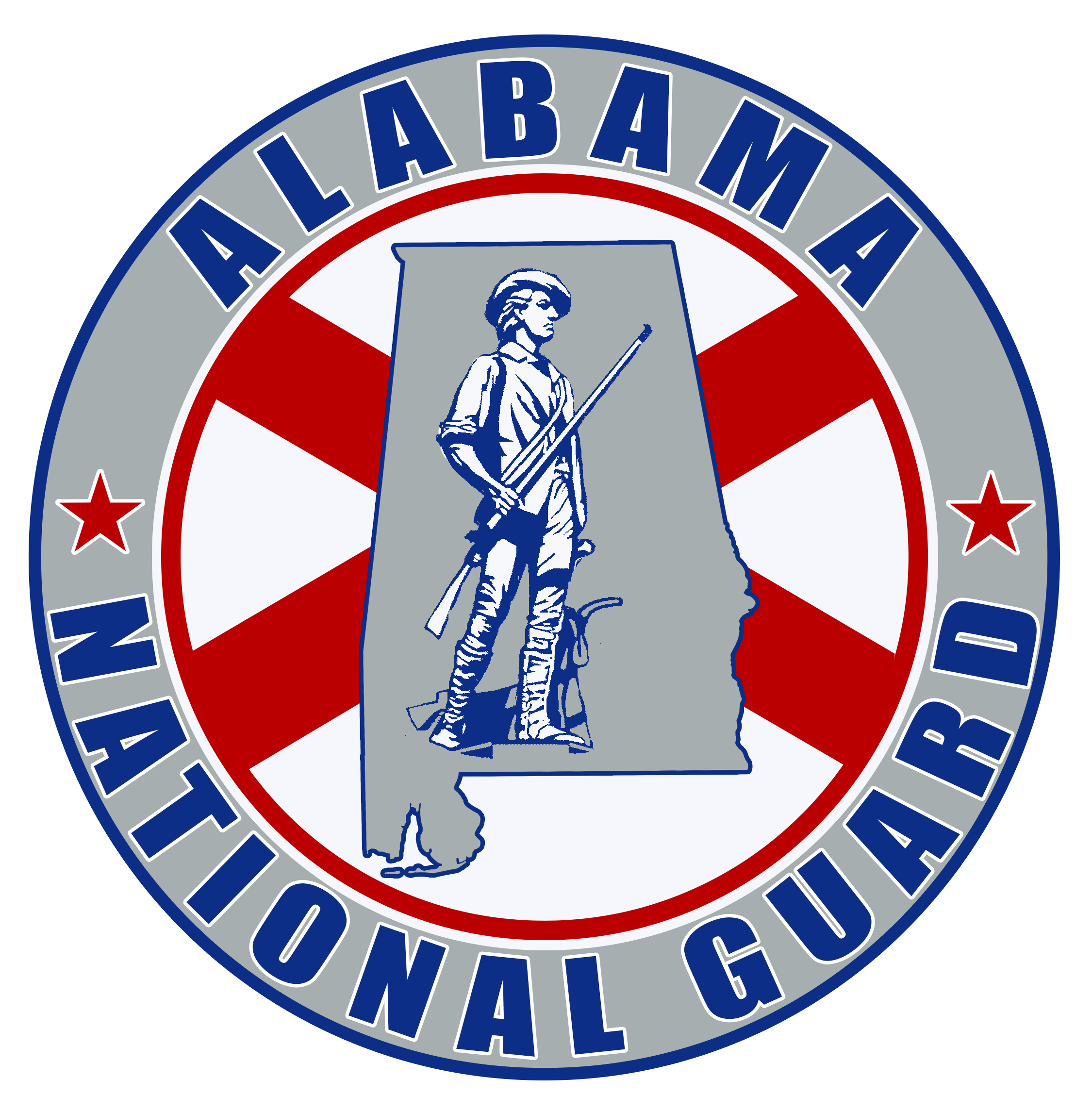 The official seal/logo of the Alabama National Guard.